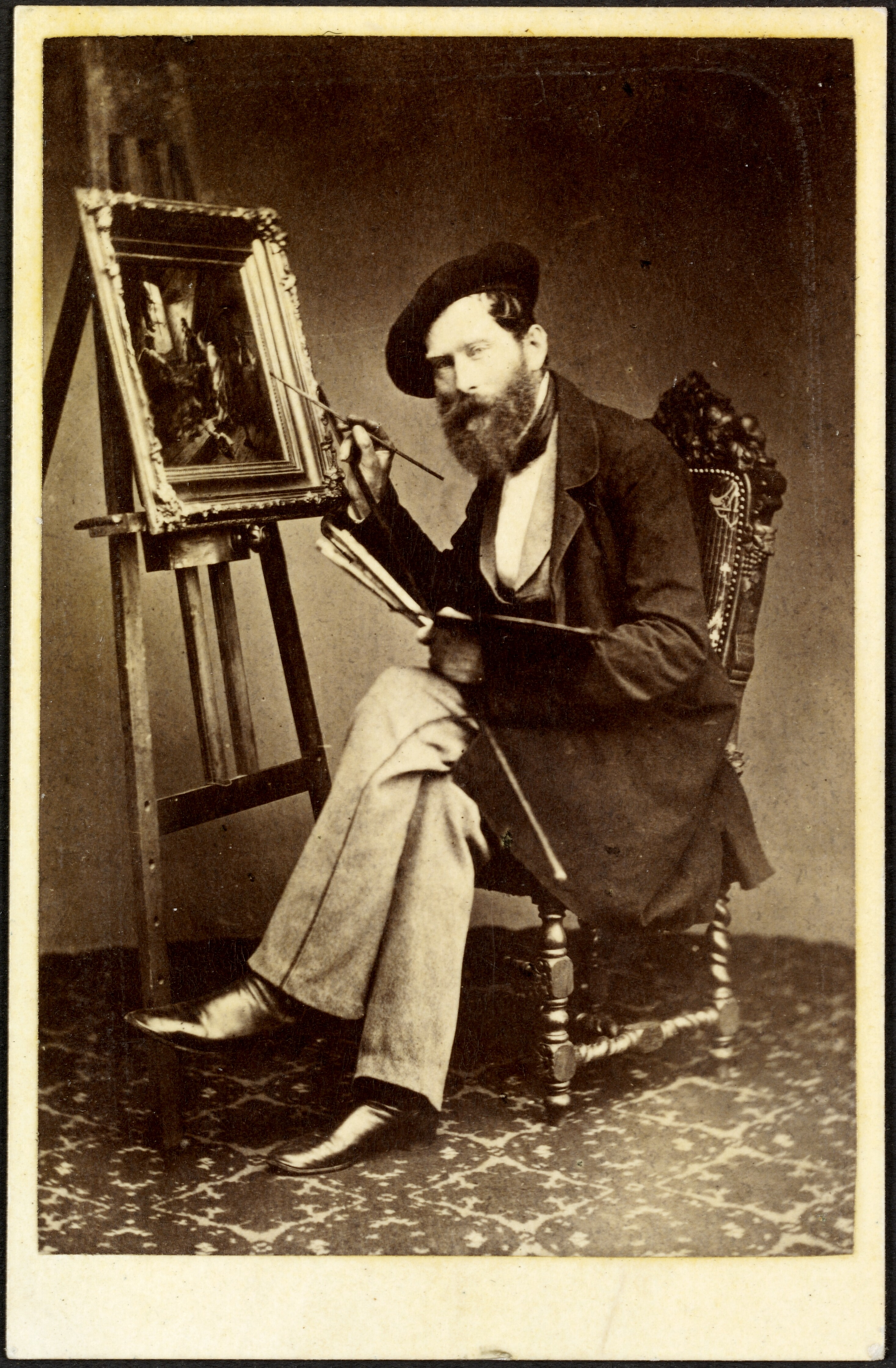 August Plum (1815-1876), Danish painter